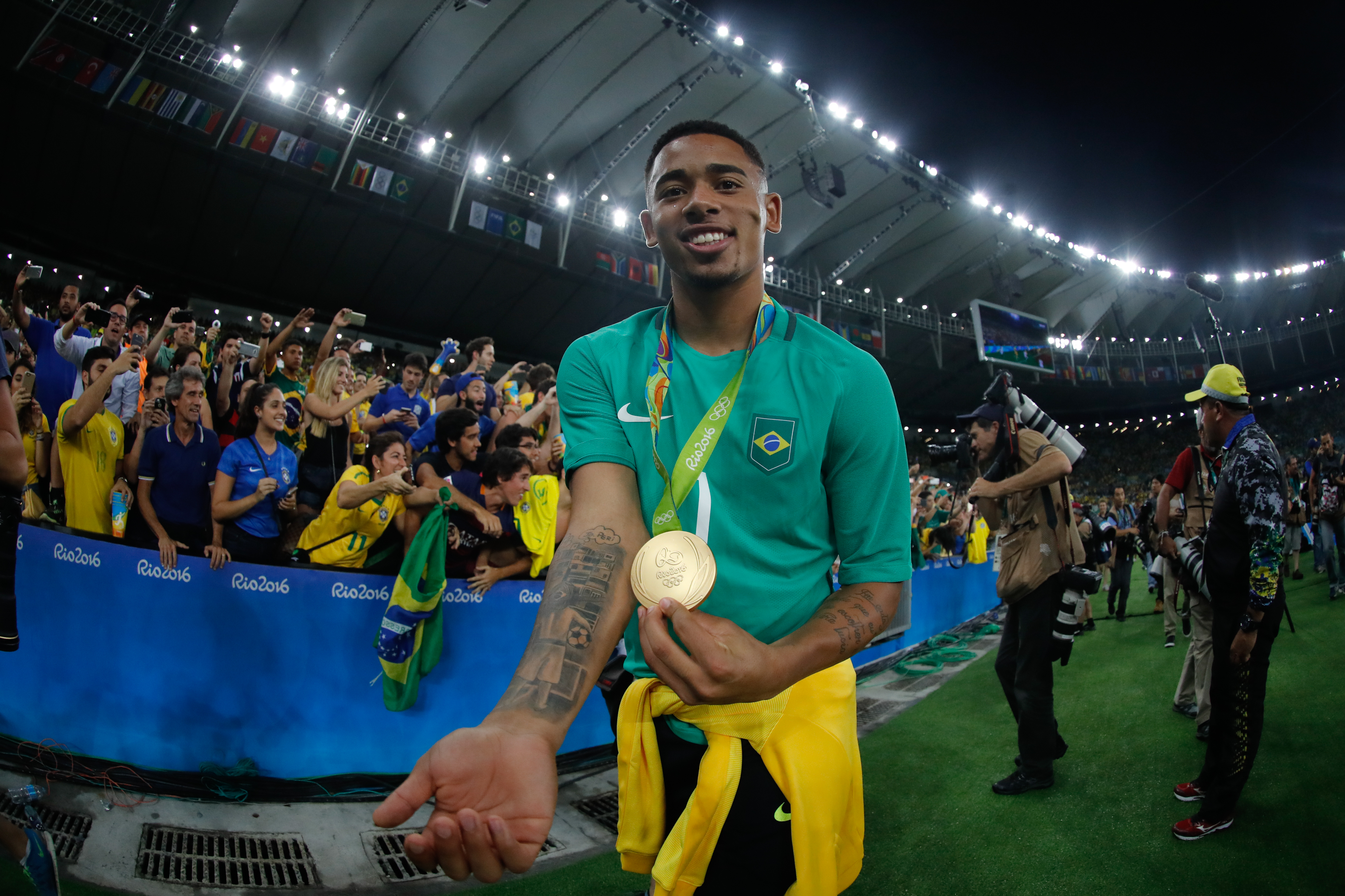 Rio de Janeiro - Brasil vence Alemanha e conquista primeiro ouro olímpico do futebol (Fernando Frazão/Agência Brasil)